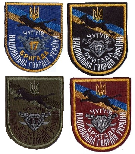 Narukavnyj sign 17 brigade on National guards of Ukraine, Chuguev.